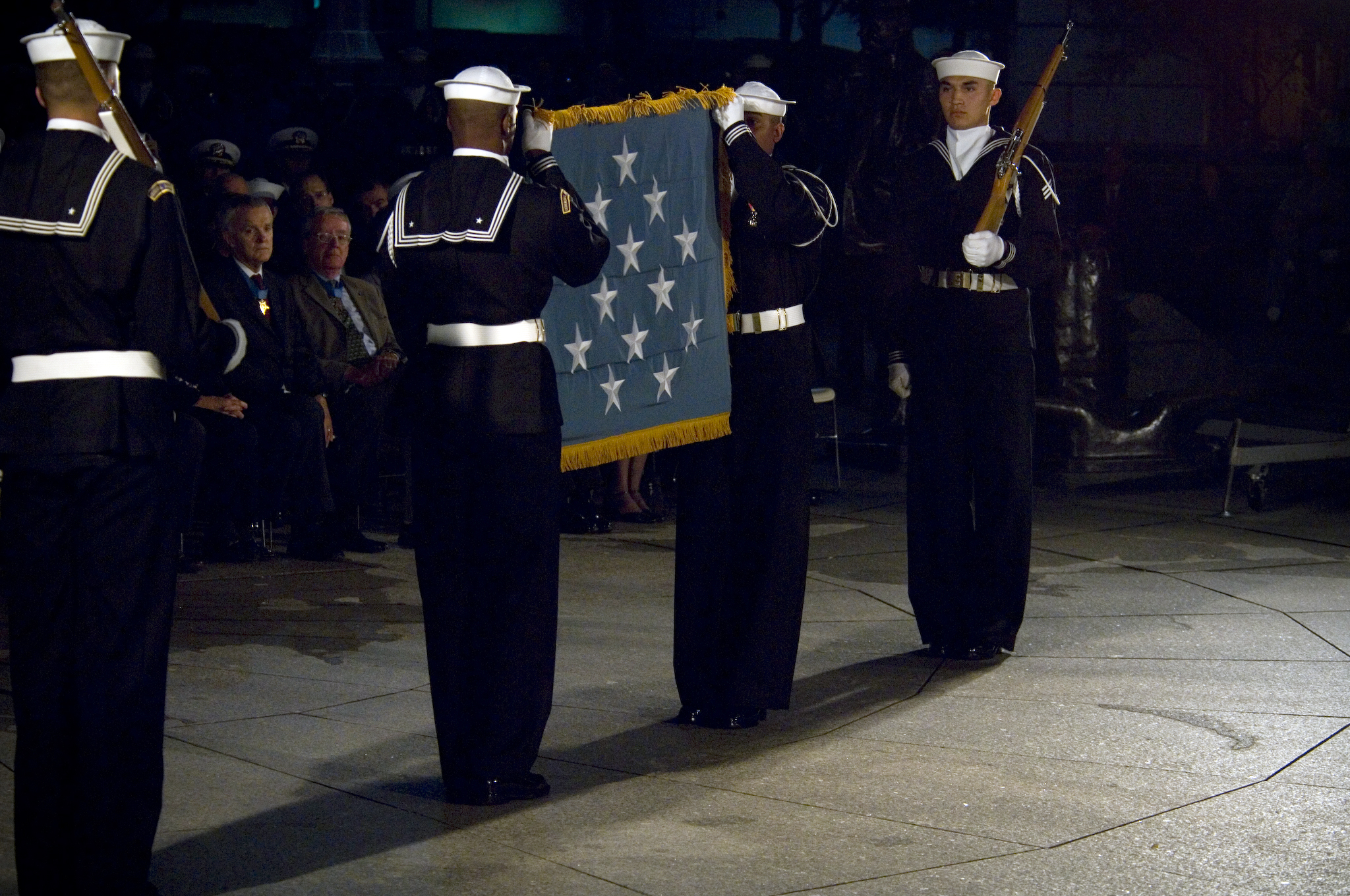 WASHINGTON (Oct. 23, 2007) - Members of the Navy Ceremonial Guard fold the Medal of Honor Flag to be presented to Daniel and Maureen Murphy, the parents of Navy SEAL Lt. Michael Murphy, during the special ceremony in honor of their son held at the United States Navy Memorial. Lt. Murphy was posthumously awarded the Medal of Honor on Oct. 22 in a ceremony held at the White House. Lt. Murphy was killed during a reconnaissance mission near Asadabad, Afghanistan, while exposing himself to enemy fire in order to call in support after his four-man team came under attack by enemy forces June 28th, 2005. Murphy is the first service member to receive the honor for actions during Operation Enduring Freedom and the first Navy recipient of the medal since Vietnam. U.S. Navy photo by Mass Communication Specialist 1st Class Brien Aho (RELEASED)